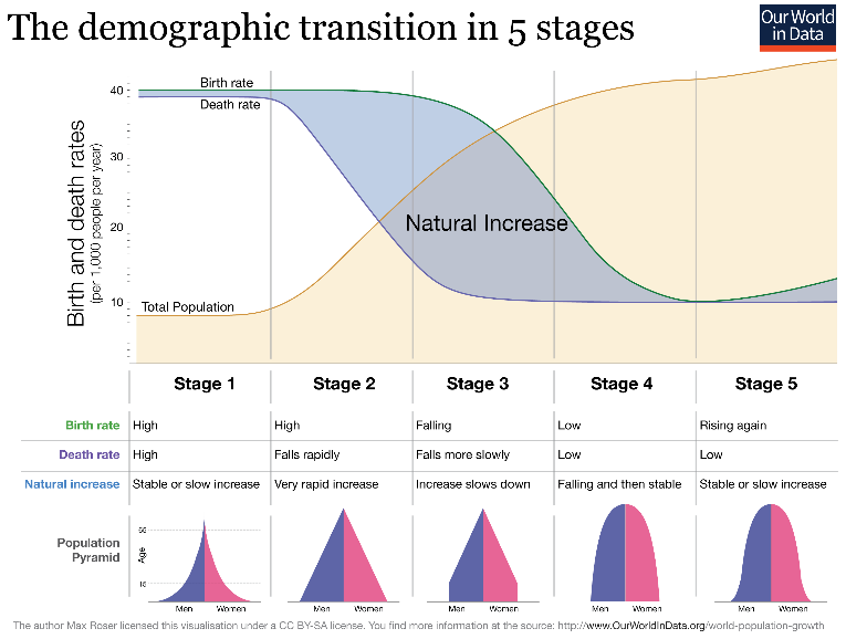 picture